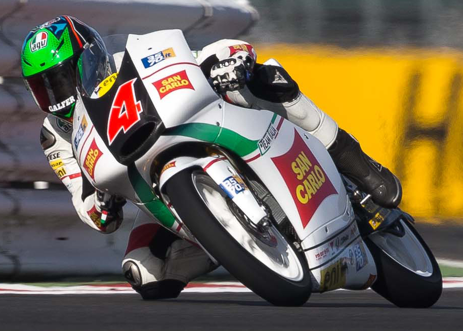 2013 Hertz British Grand Prix - Moto3 - #4 Francesco Bagnaia